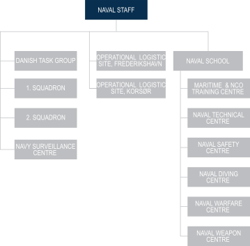 Structure of the Royal Danish Navy anno 2018